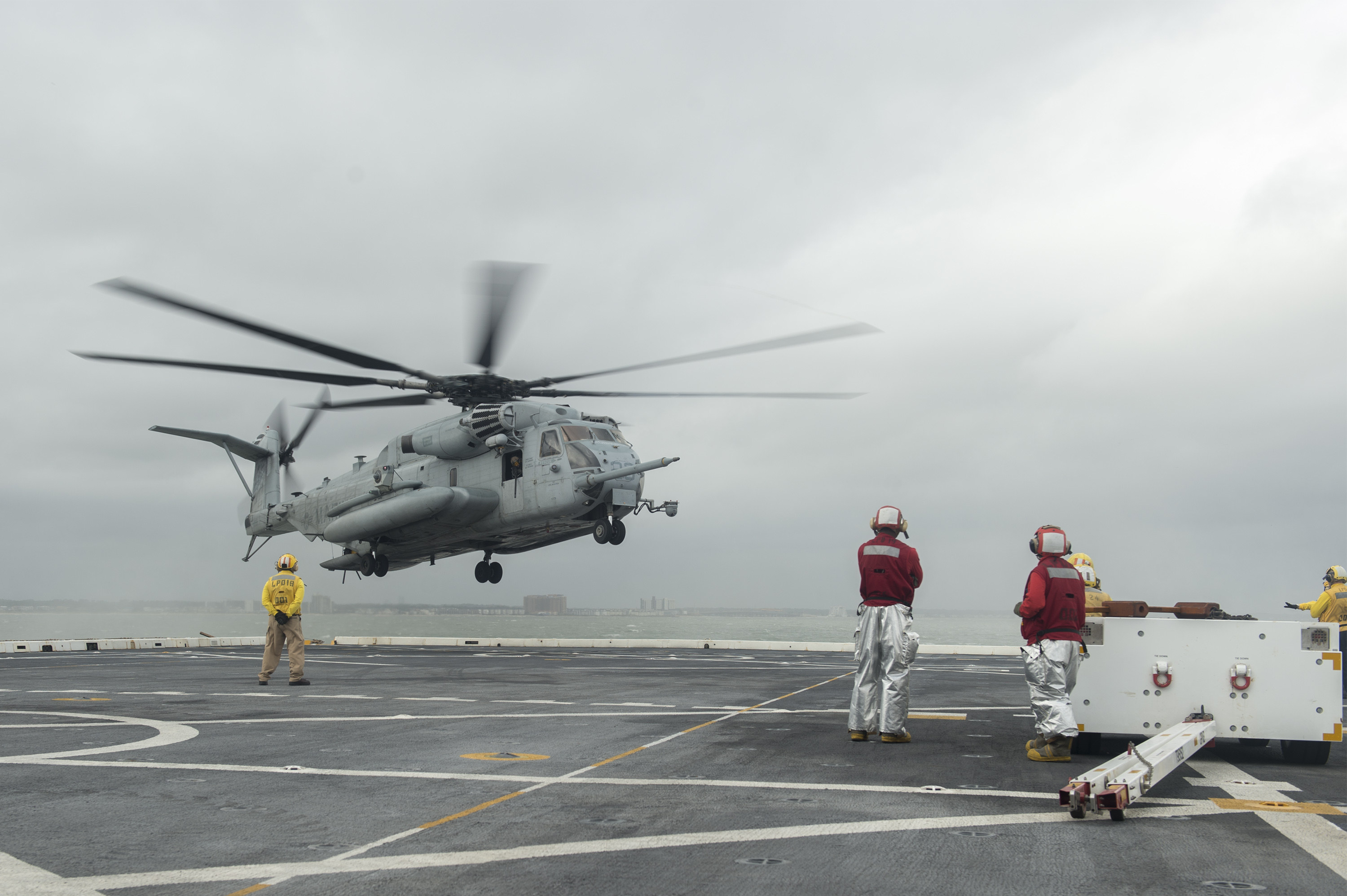 CHESAPEAKE BAY (Oct. 5, 2016) A CH-53E Sea Stallion helicopter assigned to the 24th Marine Expeditionary Unit (24th MEU), lands on the flight deck of the amphibious transport dock ship USS Mesa Verde (LPD 19). Mesa Verde is underway in preparation to support humanitarian assistance and disaster relief efforts in Haiti in response to Hurricane Matthew. (U.S. Navy photo by Petty Officer 3rd Class Joshua M. Tolbert/Released) 161005-N-NX690-003 Join the conversation: navylive.dodlive.mil